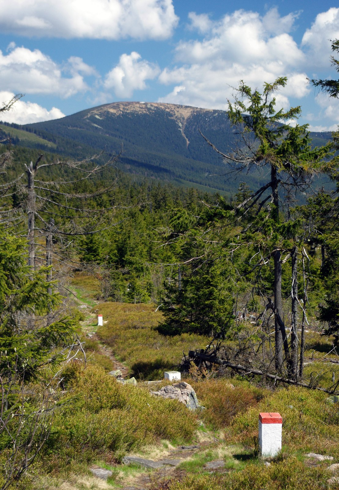 Kralicky Sneznik mountain